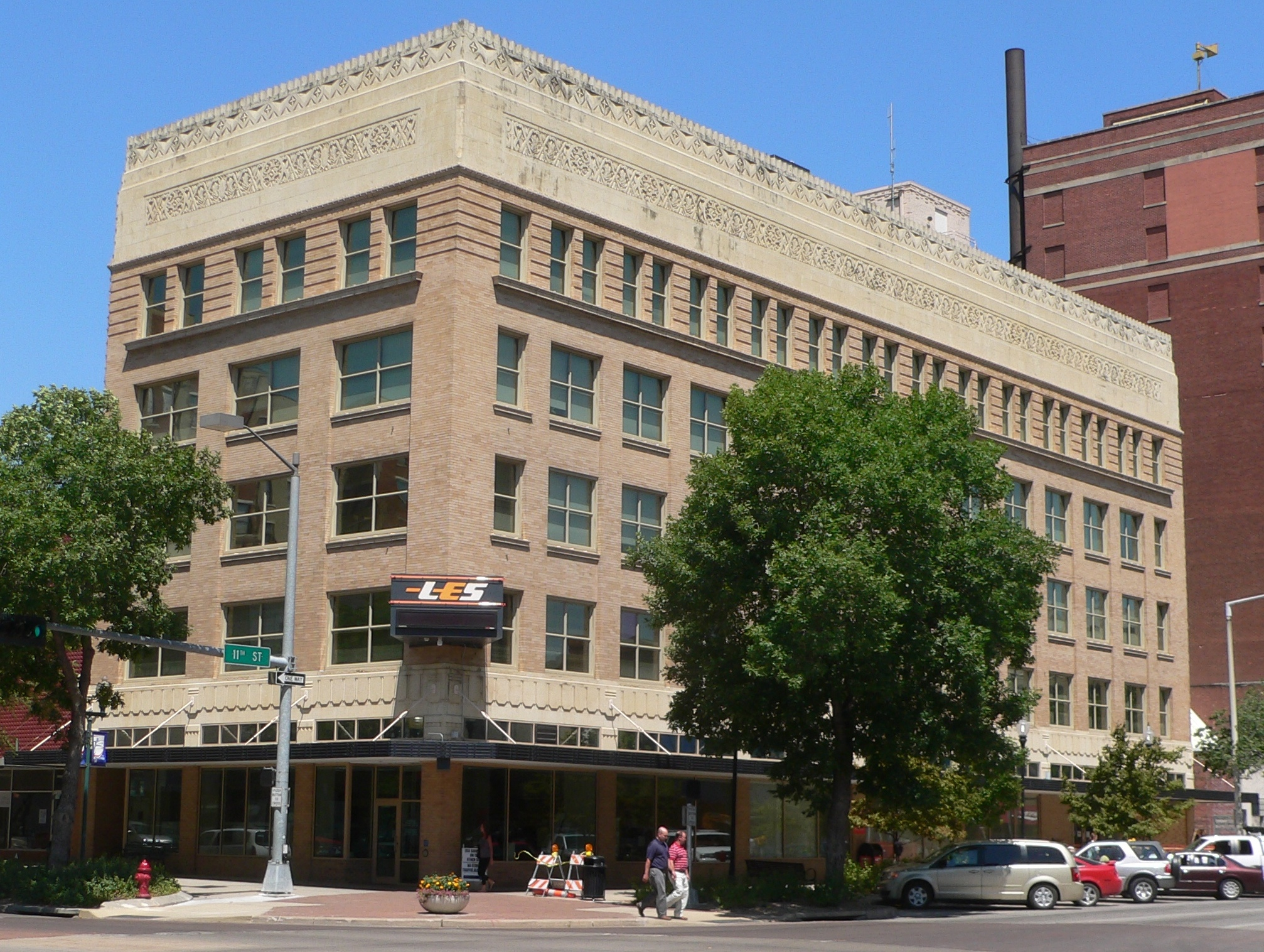 Lincoln Liberty Life Insurance building, located at 113 N. 11th Street (northwest corner of 11th and O Streets) in Lincoln, Nebraska; seen from the southeast.